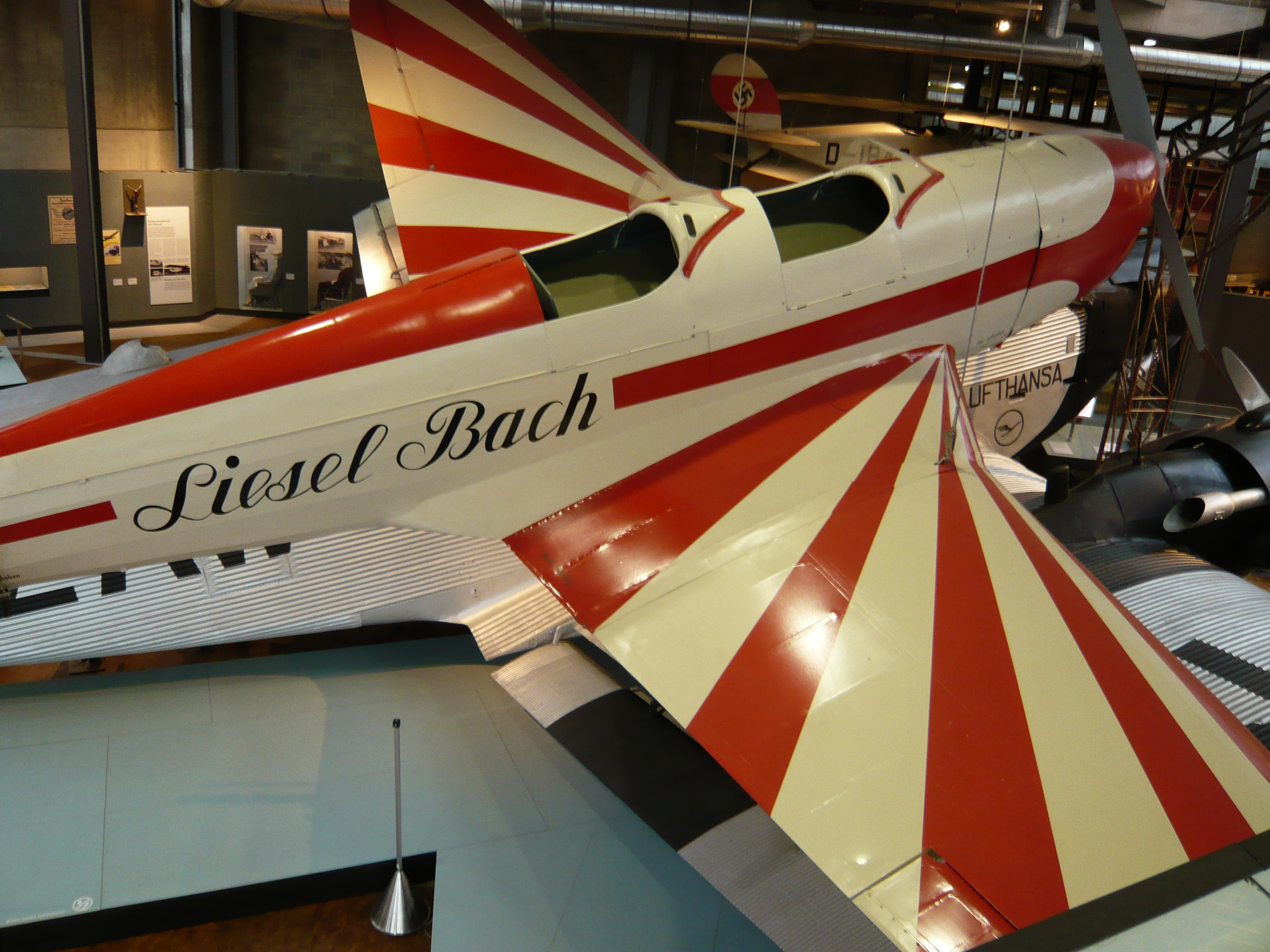 A Klemm Kl 35 that was owned by Elisabeth "Liesel" Bach, now on display at German Museum of Technology